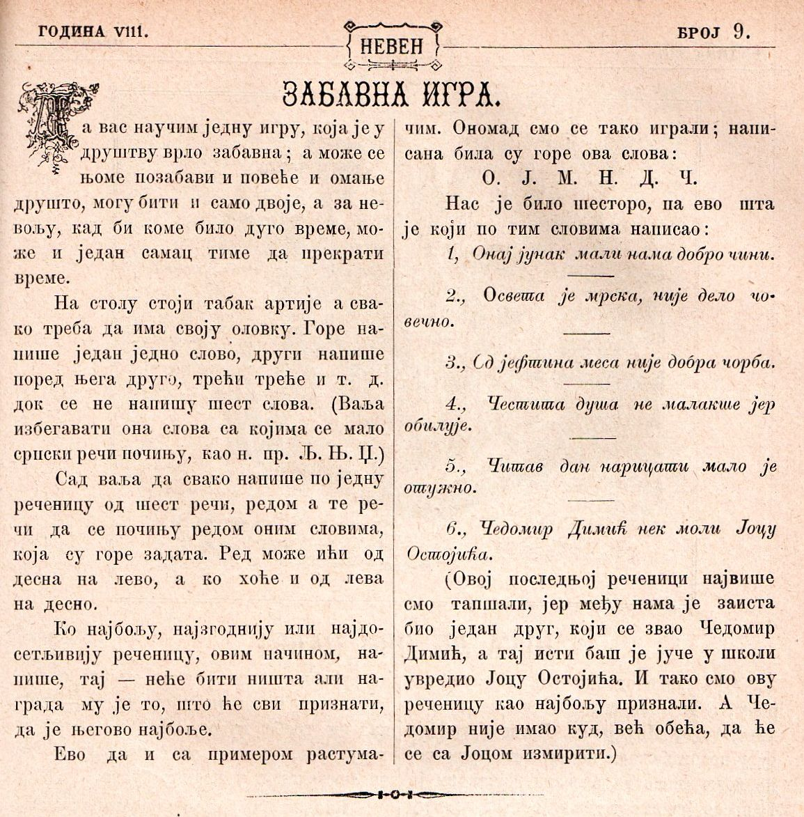 Neven, childrens magazine in Serbia, number 9, page 135, 1887